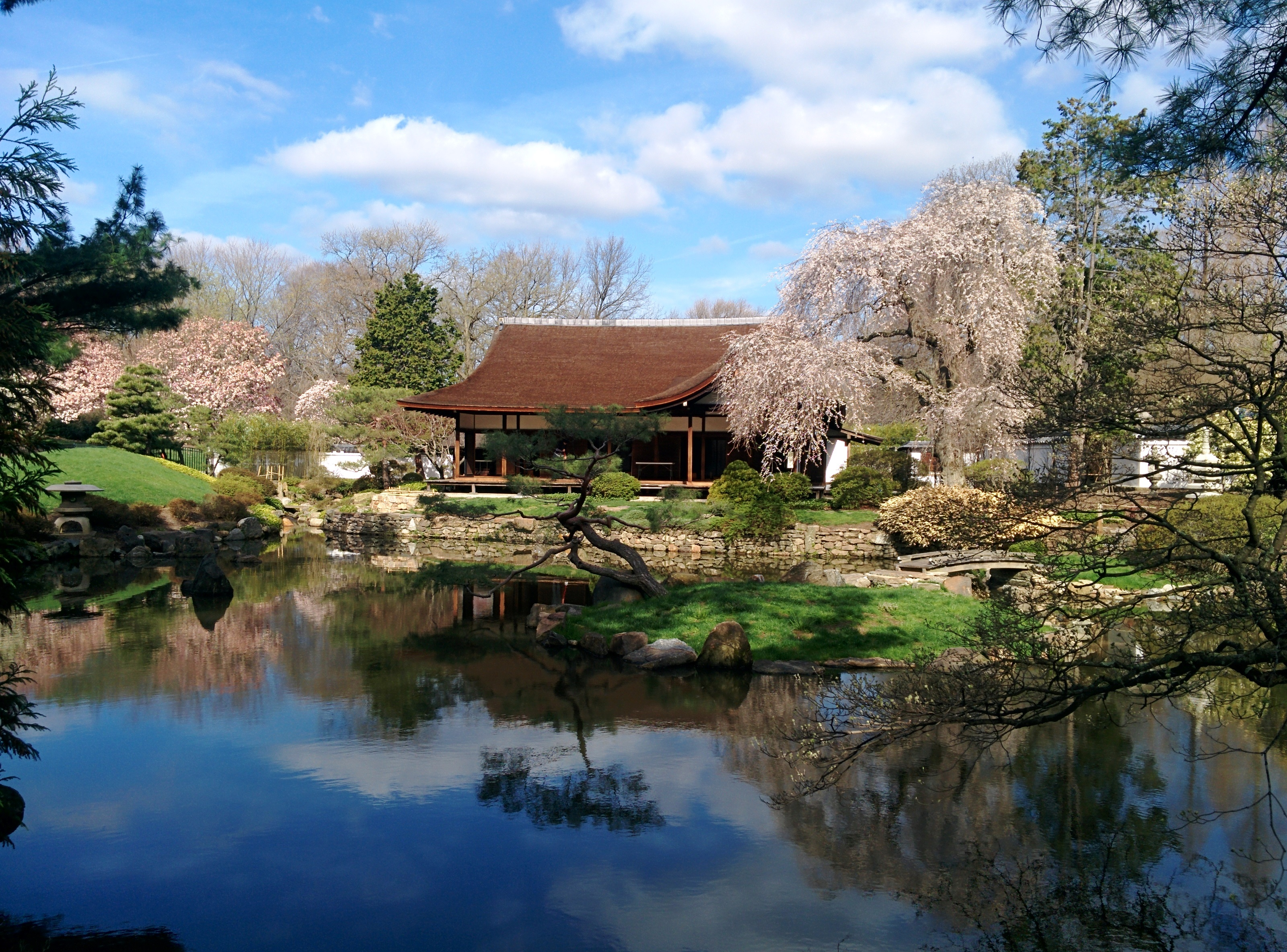 A shot of Shofuso Japanese House and Garden in Philadelphia in spring.